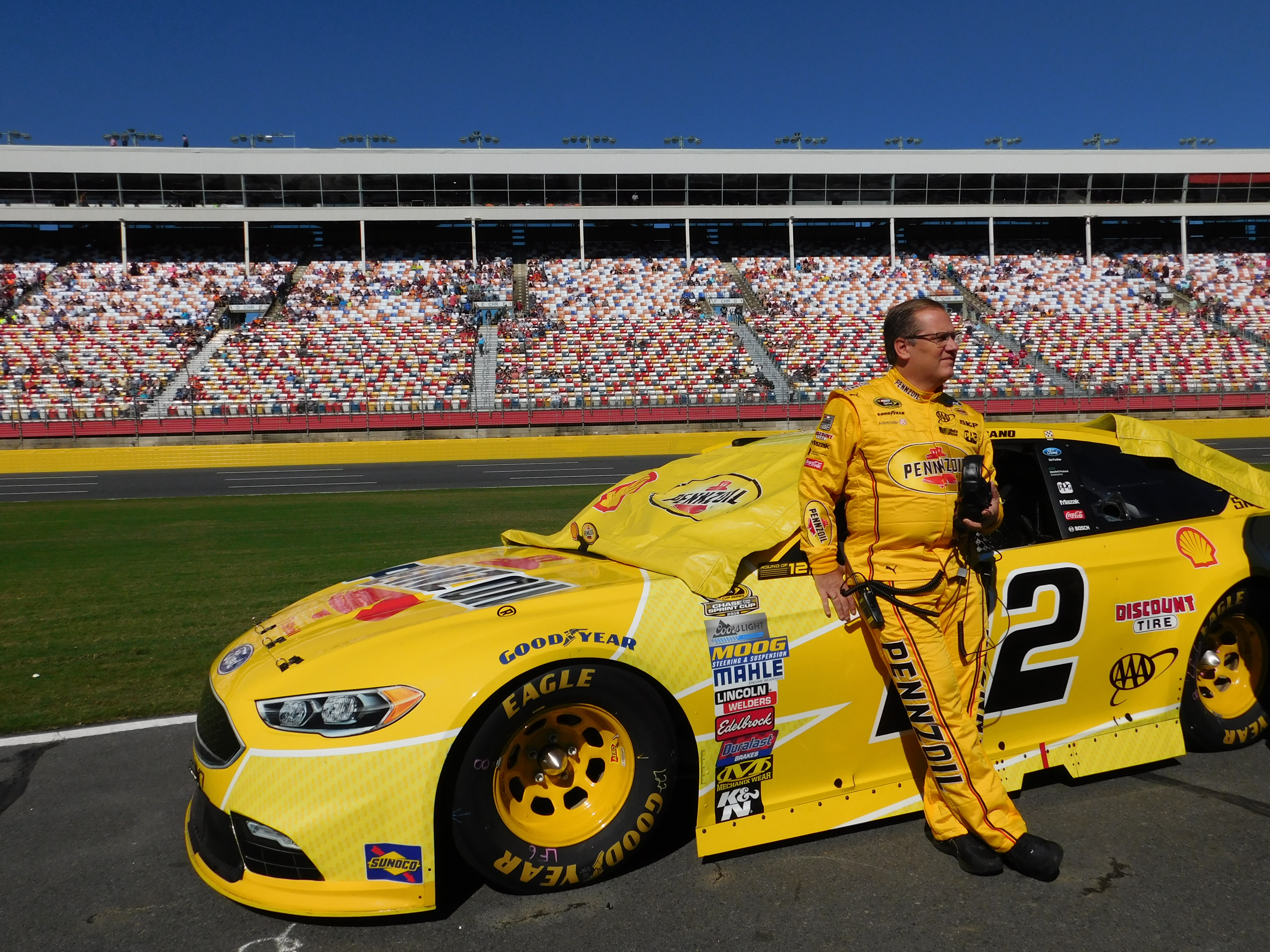 Todd Gordon at Charlotte Motor Speedway in 2016